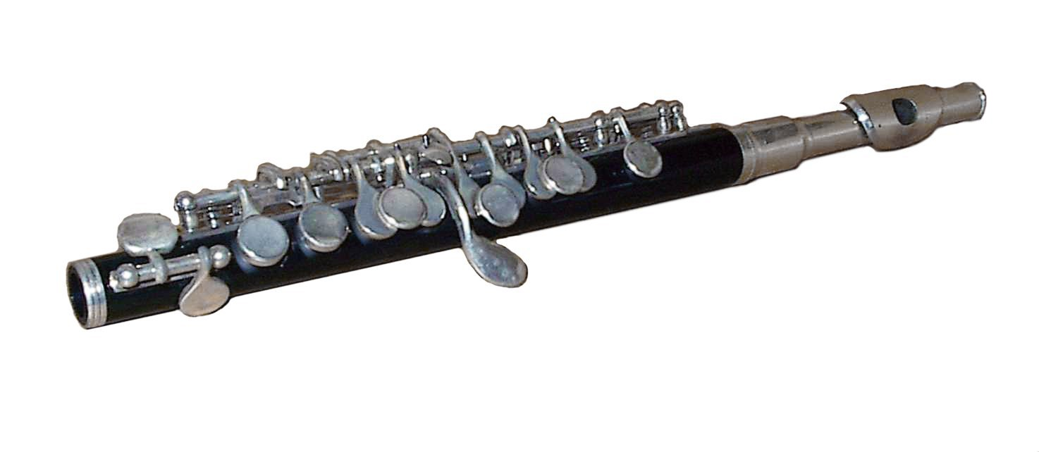 Yamaha YPC32 piccolo. The body is made from ABS resin, and the head is plated with silver.